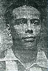 the soccer player Antonio Barros Filho's foto